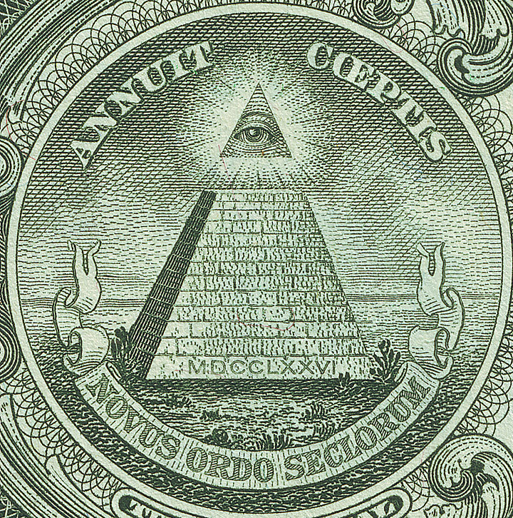 Pyramid with the all-seeing eye on the back side of the US 1-Dollar bill